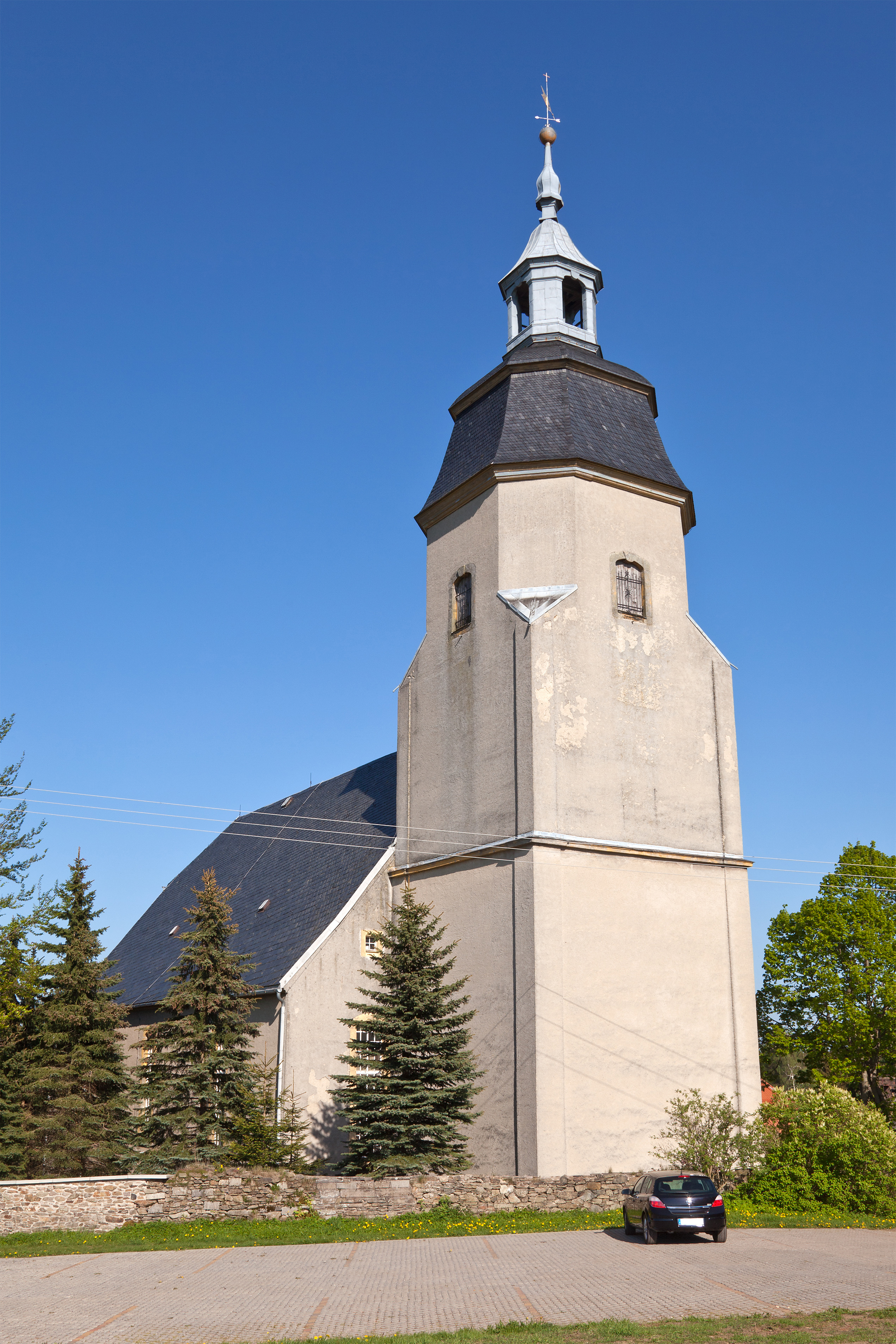 Großhartmannsdorf, Saxony, church